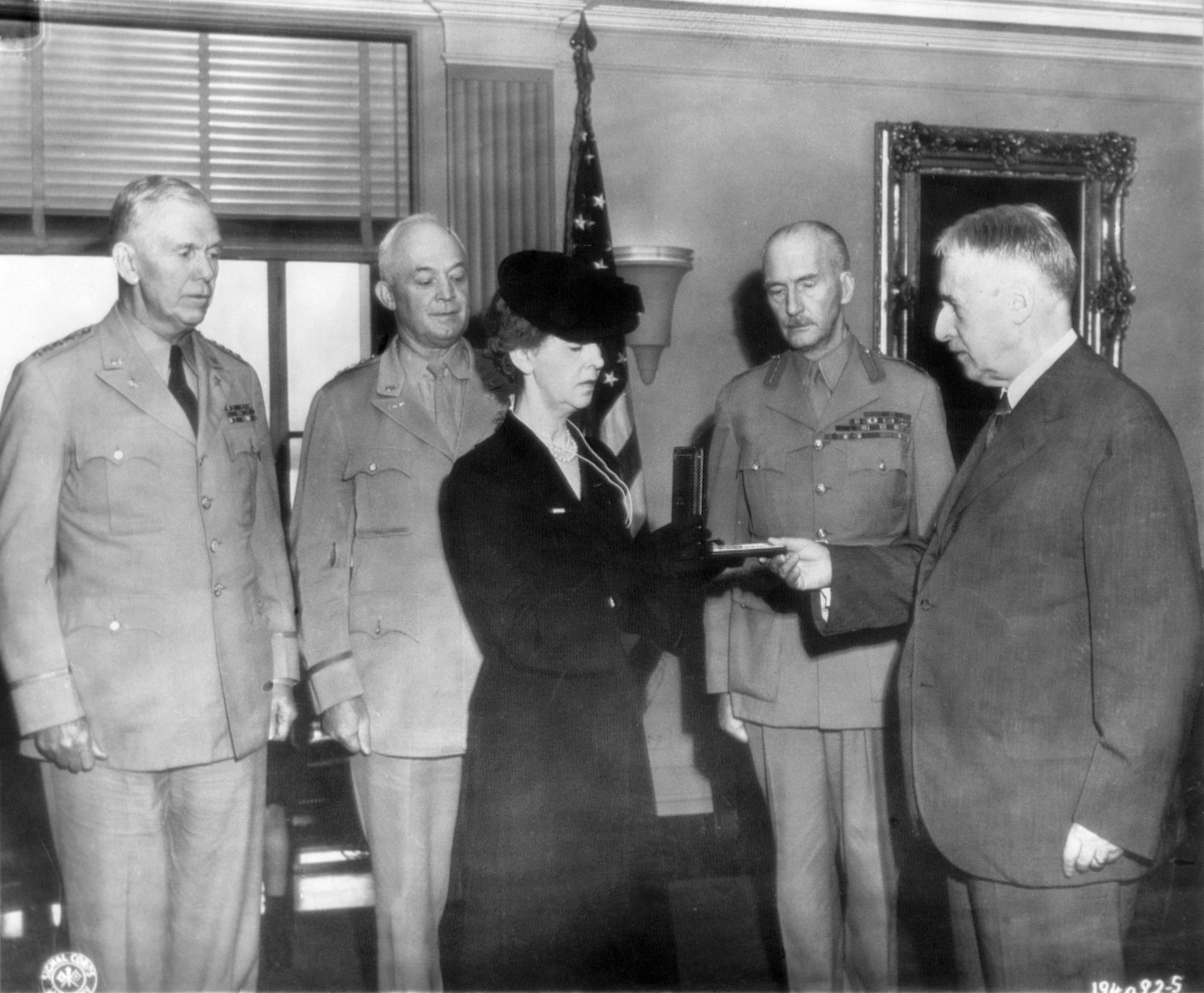 Photograph of Eleanor Butler Roosevelt receiving the Medal of Honor posthumously presented to her husband, Theodore Roosevelt Jr. Print bears Signal Corps marking at lower left, and at right the number 194092-5 appears. Original AP Wirephoto caption reads as follows: (WX13) WASHINGTON, SEPT. 21 — GEN. ROOSEVELT'S WIDOW RECEIVES HIS MEDAL — Mrs. Roosevelt, widow of Brig. Gen. Theodore Roosevelt, Jr., today receives from Secretary of War Henry L. Stimson a posthumous award for him of Medal of Honor for "gallantry and intrepidity." Left–right are: Gen. George C. Marshall, U.S. Army Chief of Staff; Gen. H. H. Arnold, commanding Army Air Forces; Mrs. Roosevelt, of Oyster Bay, N.Y.; British Field Marshal Sir John Dill and Secretary Stimson. (See Wire Story) (AP Wirephoto from Signal Corps) (gd51802) 1944